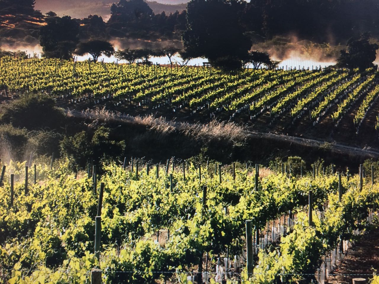 Viñedos Santa Rita, Valle de Colchagua